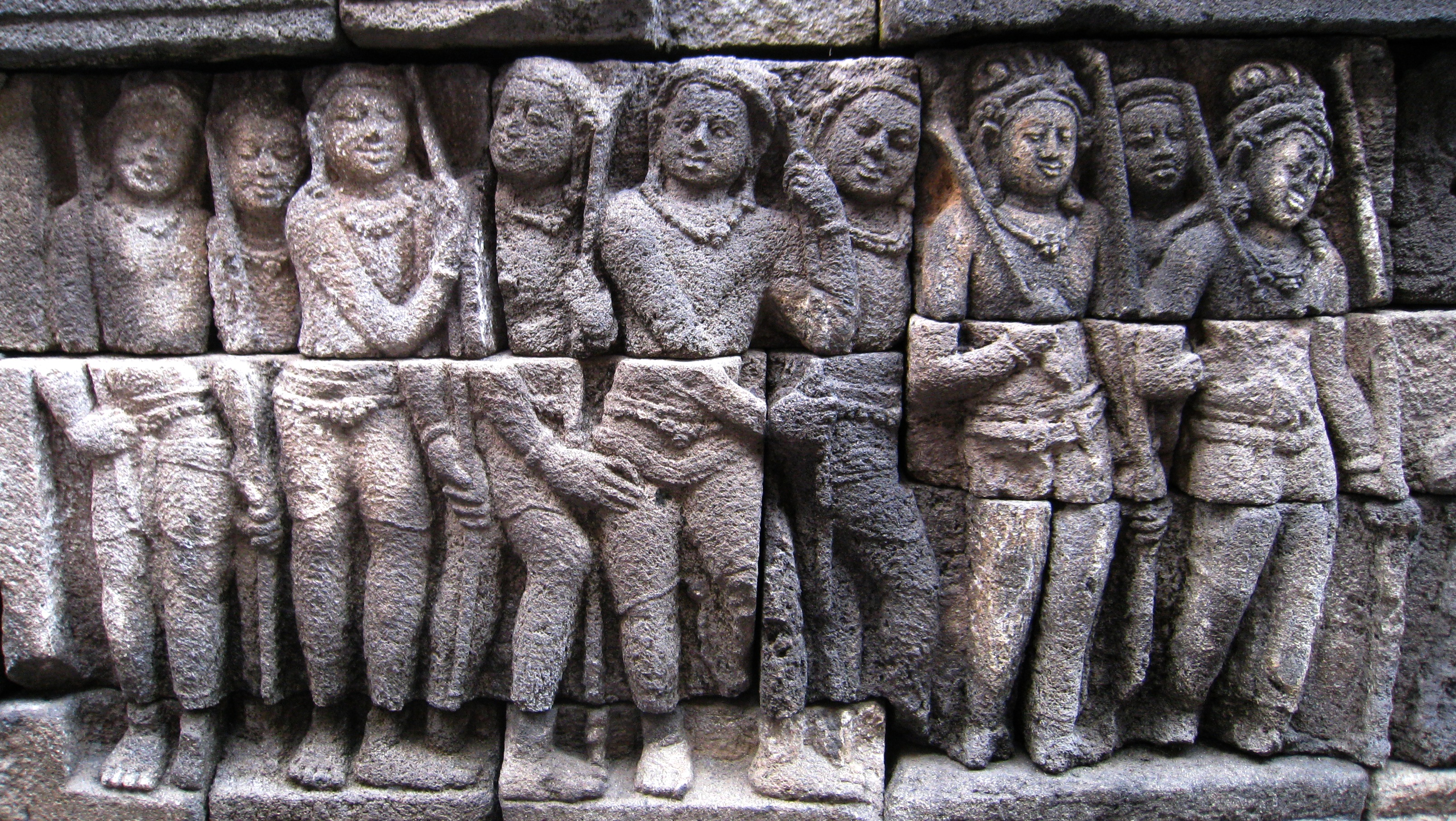 Jataka Level 1 Bottom, Warrioirs